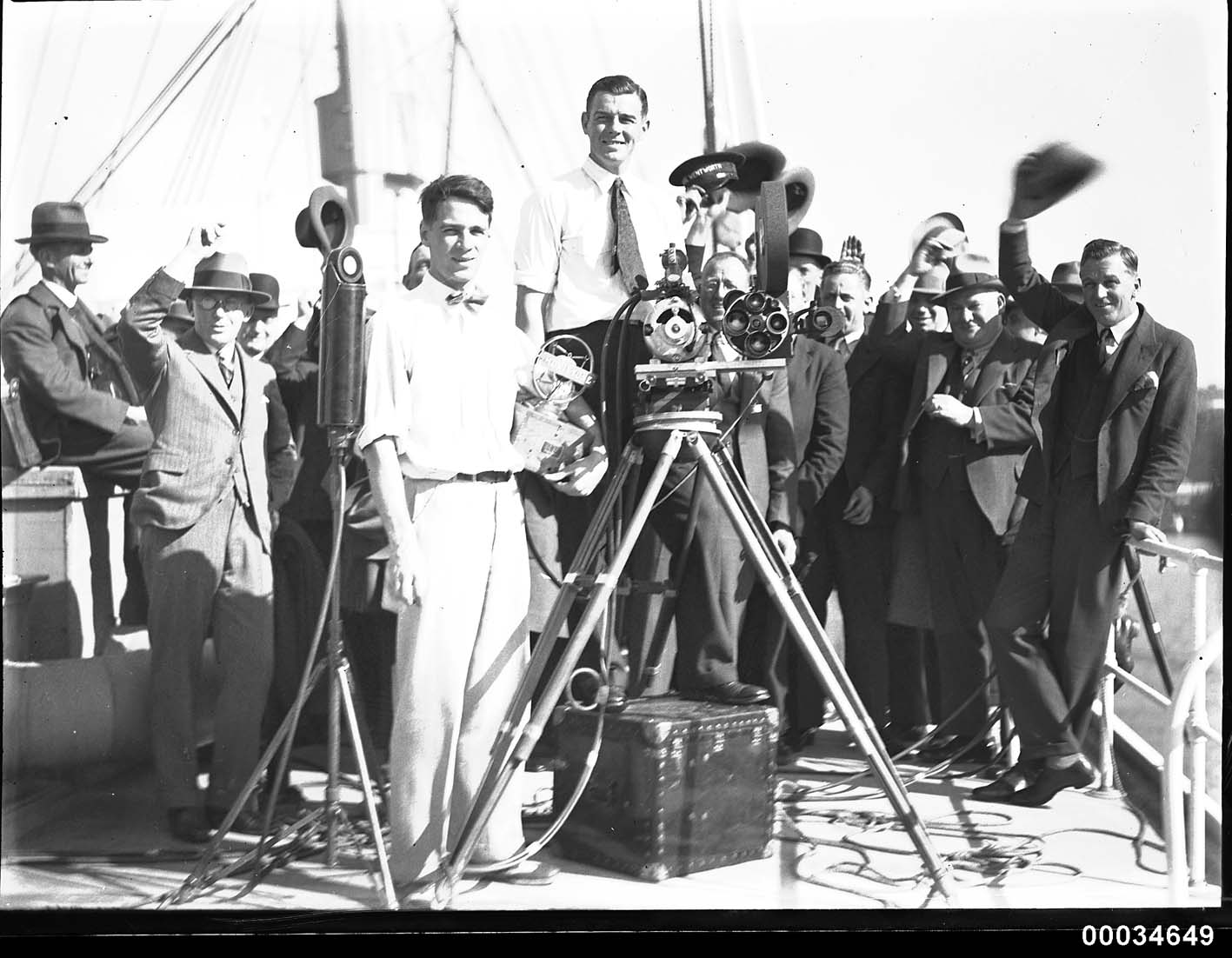 This photograph depicts a group of men and a film crew on board SS SIERRA. The photograph was taken in August 1929 at Circular Quay during the welcoming and celebrations of the arrival of Australia's first Movietone News truck. The man standing behind the camera is a Sydney cameraman, Ray Vaughan, who had just spent time at Fox Studios in the US. The man standing second from the right is William Szarka of Stanmore, who was the Director of Hoyts Theatre in about 1932. This photo is part of the Australian National Maritime Museum’s Samuel J. Hood Studio collection. Sam Hood (1872-1953) was a Sydney photographer with a passion for ships. His 60-year career spanned the romantic age of sail and two world wars. The photos in the collection were taken mainly in Sydney and Newcastle during the first half of the 20th century. The ANMM undertakes research and accepts public comments that enhance the information we hold about images in our collection. This record has been updated accordingly. Photographer: Samuel J. Hood Studio Collection Object no. 00034649